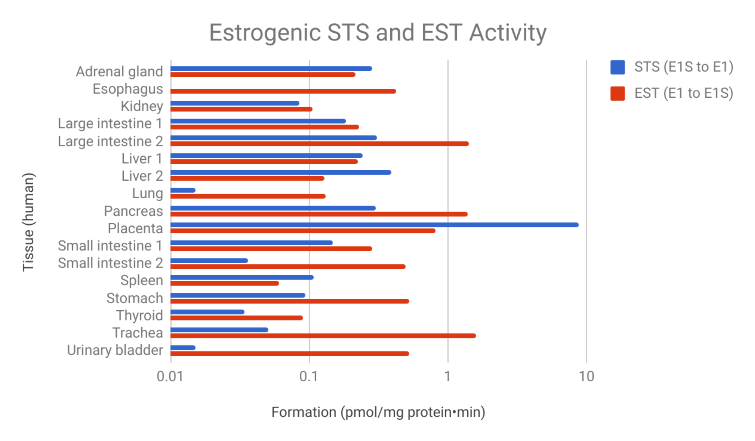 Distribution of steroid sulfatase (STS) and estrogen sulfotransferase (EST) activities in adult human tissues. STS was measured as conversion of estrone sulfate (E1S) into estrone (E1), and EST was measured as conversion of estrone (E1) into estrone sulfate (E1S). Source of values: (December 2002). "Systemic distribution of steroid sulfatase and estrogen sulfotransferase in human adult and fetal tissues". J. Clin. Endocrinol. Metab. 87 (12): 5760–8. PMID 12466383.